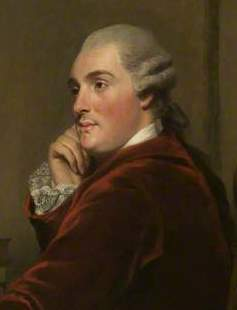 A three-quarter-length portrait of William Cavendish-Bentinck, 3rd Duke of Portland, turned to the left, gazing to the left, seated in a red upholstered armchair, holding some papers with his left hand and his cheek leaning on his right hand. Dressed in dark crimson velvet coat and knee-breeches, with white stockings, Short powdered wig, tied at the back with a black ribbon. Architectural background with pillard portico on the left, with view of trees and sky. On the table are books, and two bronze statuettes, one representing either Samson or Hercules holding the jawbone of an ass, the other possibly a boxer.